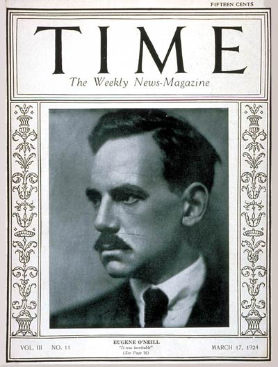 TIME Magazine Cover Featuring Eugene O'Neill, 17 Mar 1924